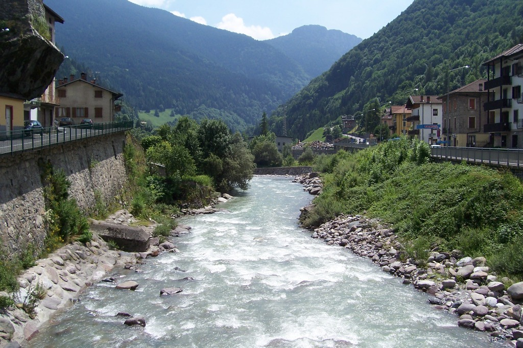 Dezzo river